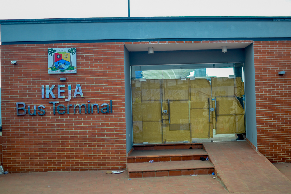 Ikeja Bus terminal gate, Ikeja, Lagos